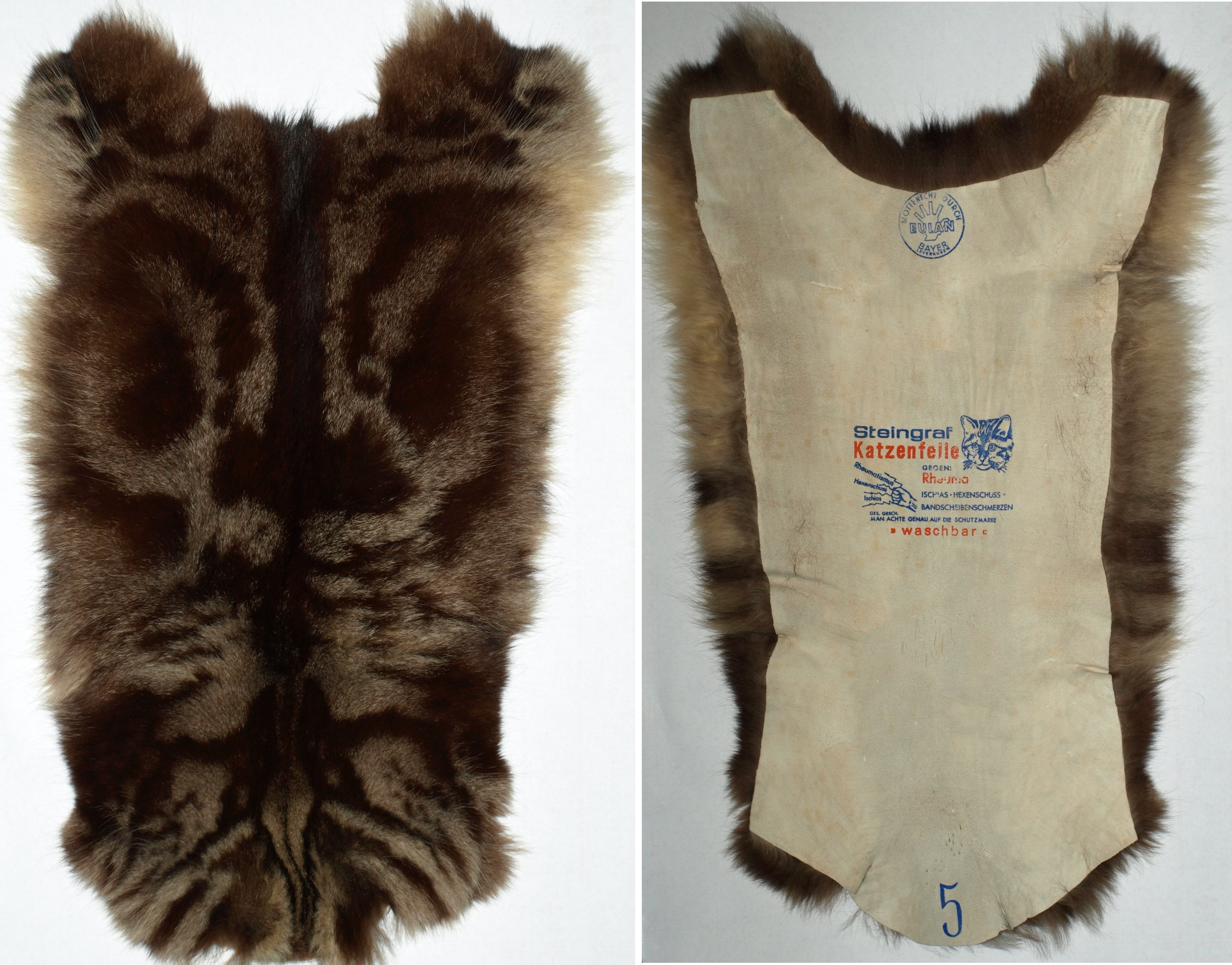 Domestic cat (Felix catus) fur skin sold against rheumatism